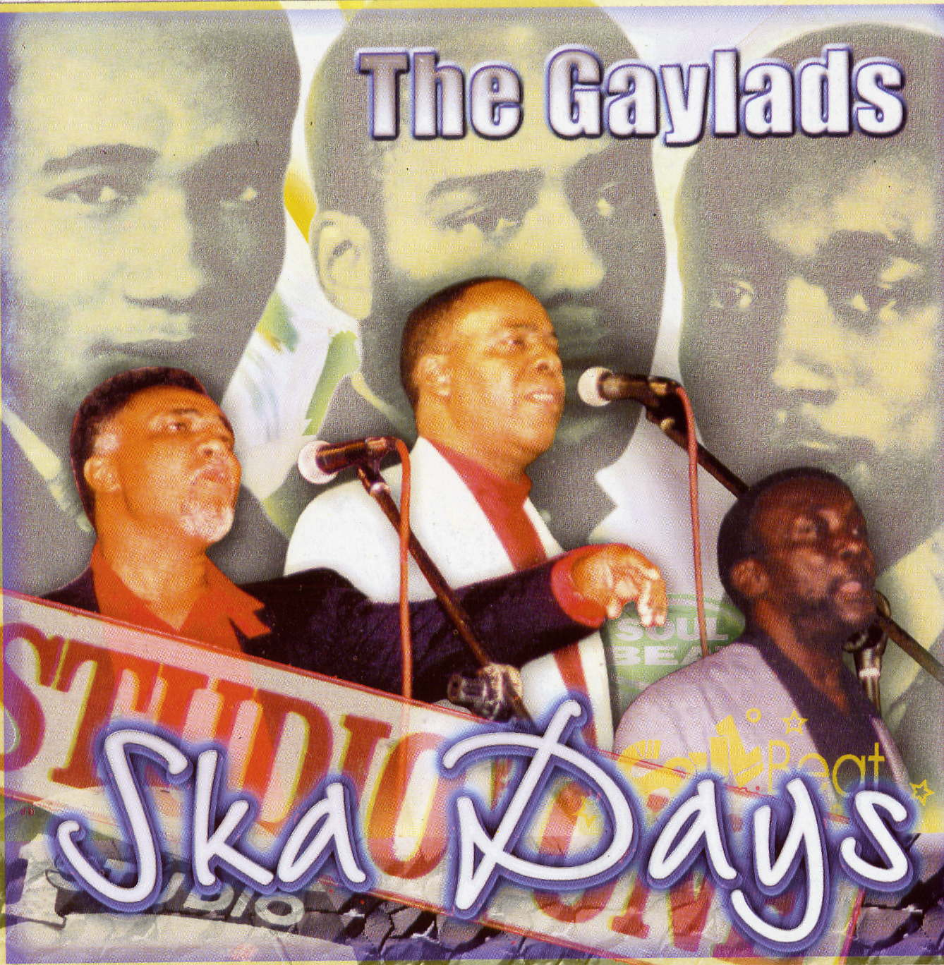 Picture uploaded with agreement of the copyright holder. Agreement signed by B.B. Seaton